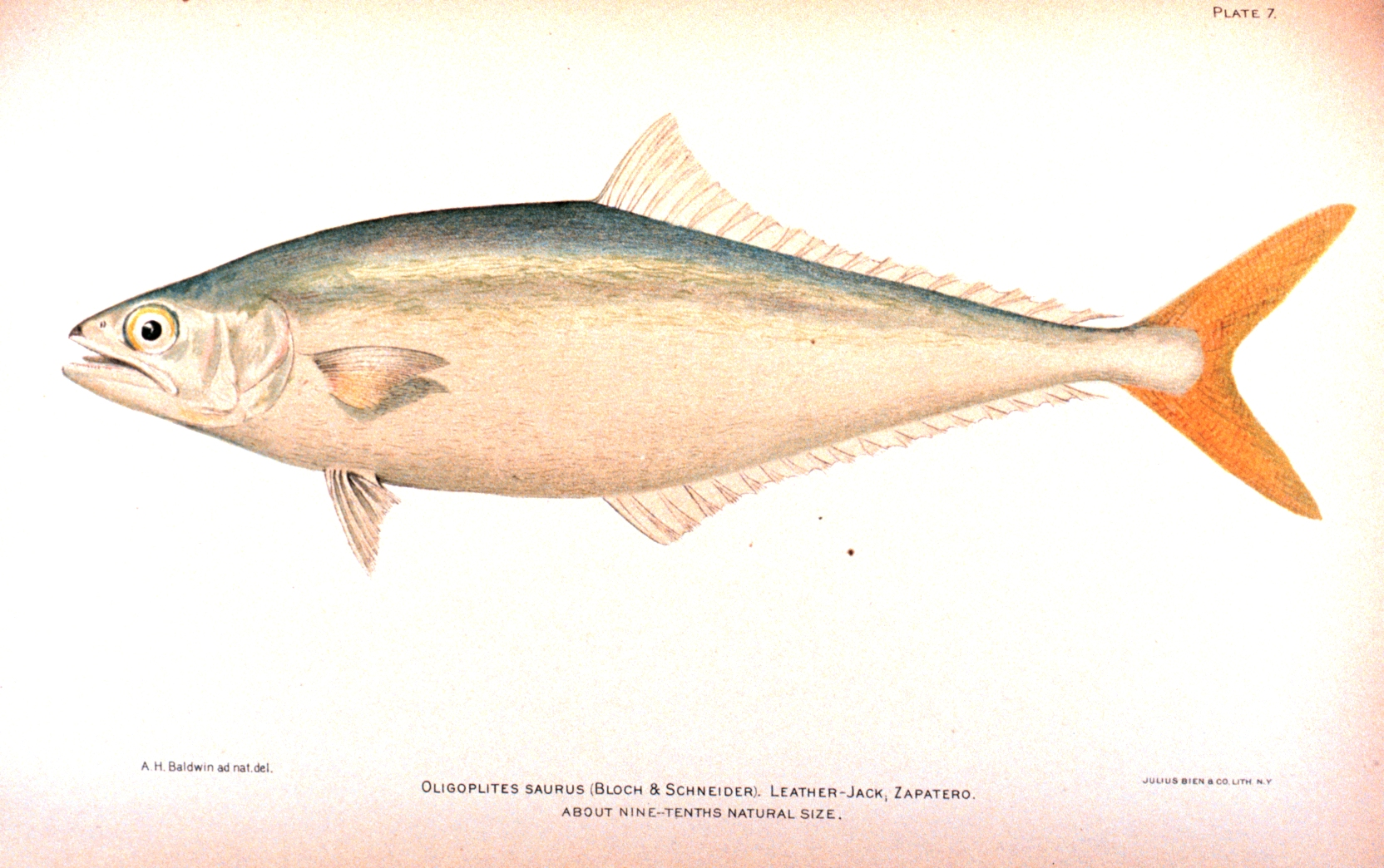 Oligoplites saurus